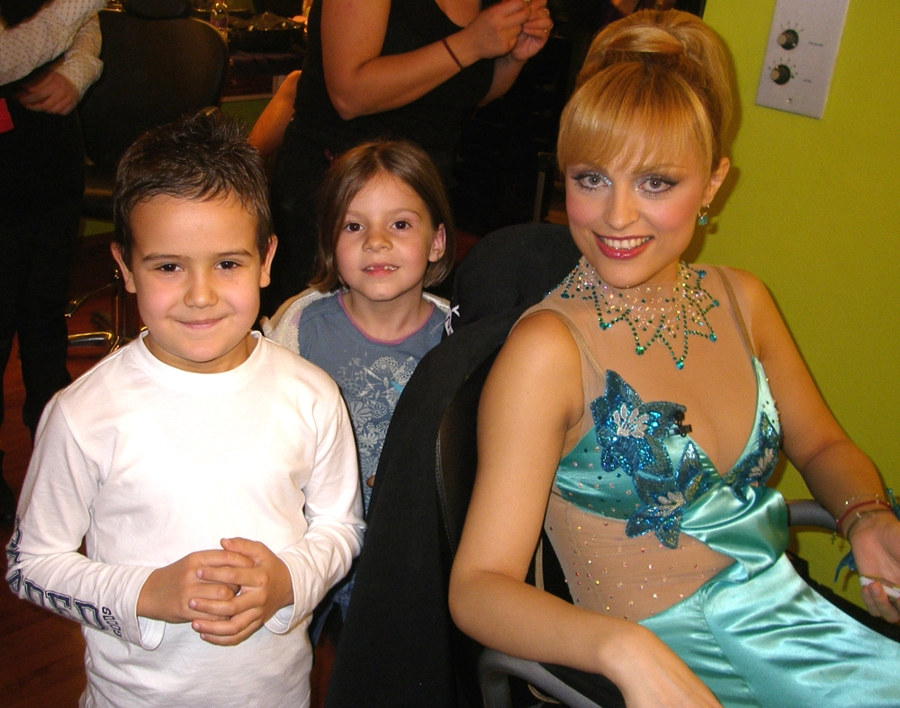 Croatian singer Antonija Šola at Dancing with the Stars